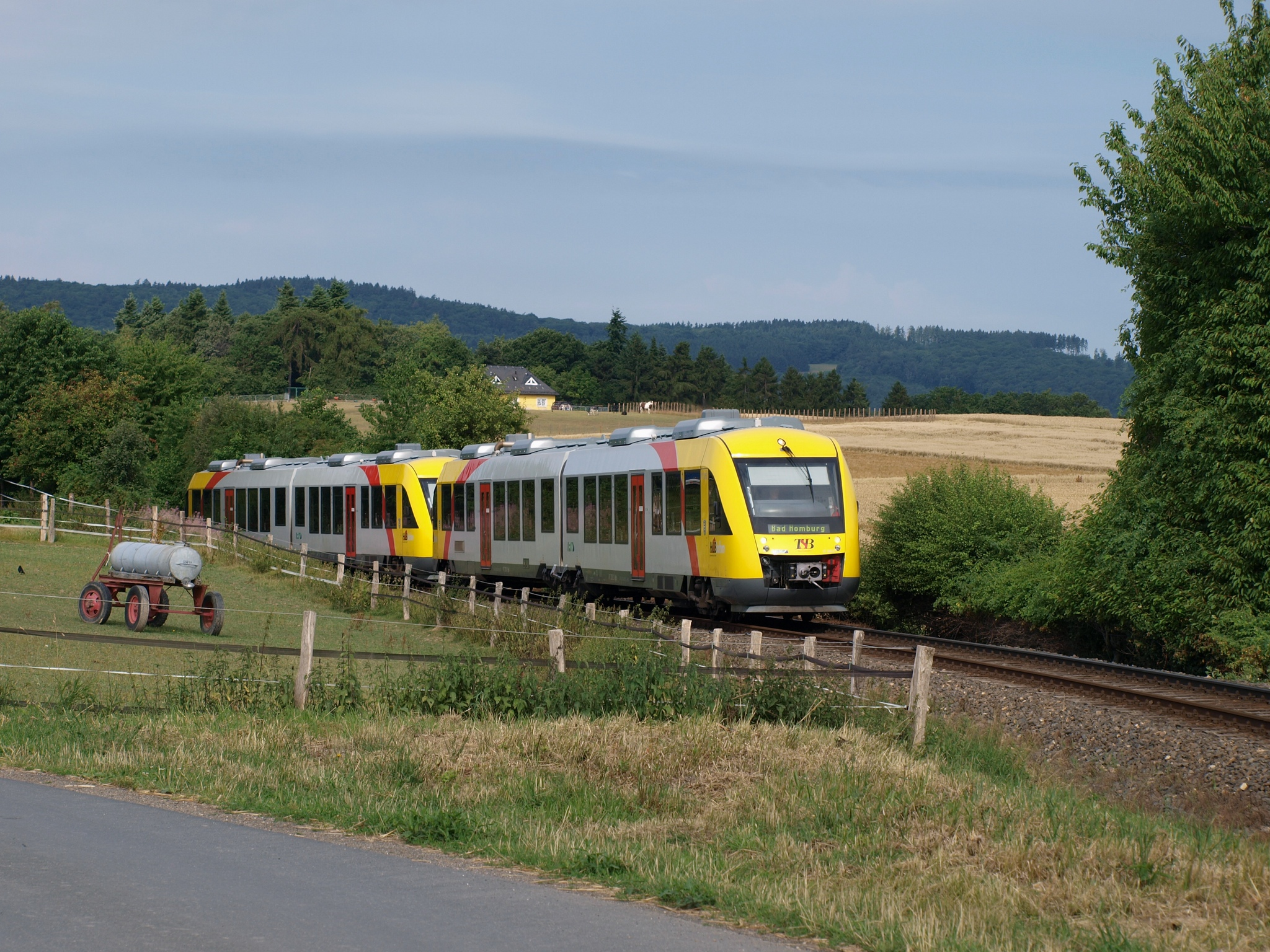 Two LINT 41 on the Taunusbahn have left Neu-Anspach and pass the Heisterbacher Hof.